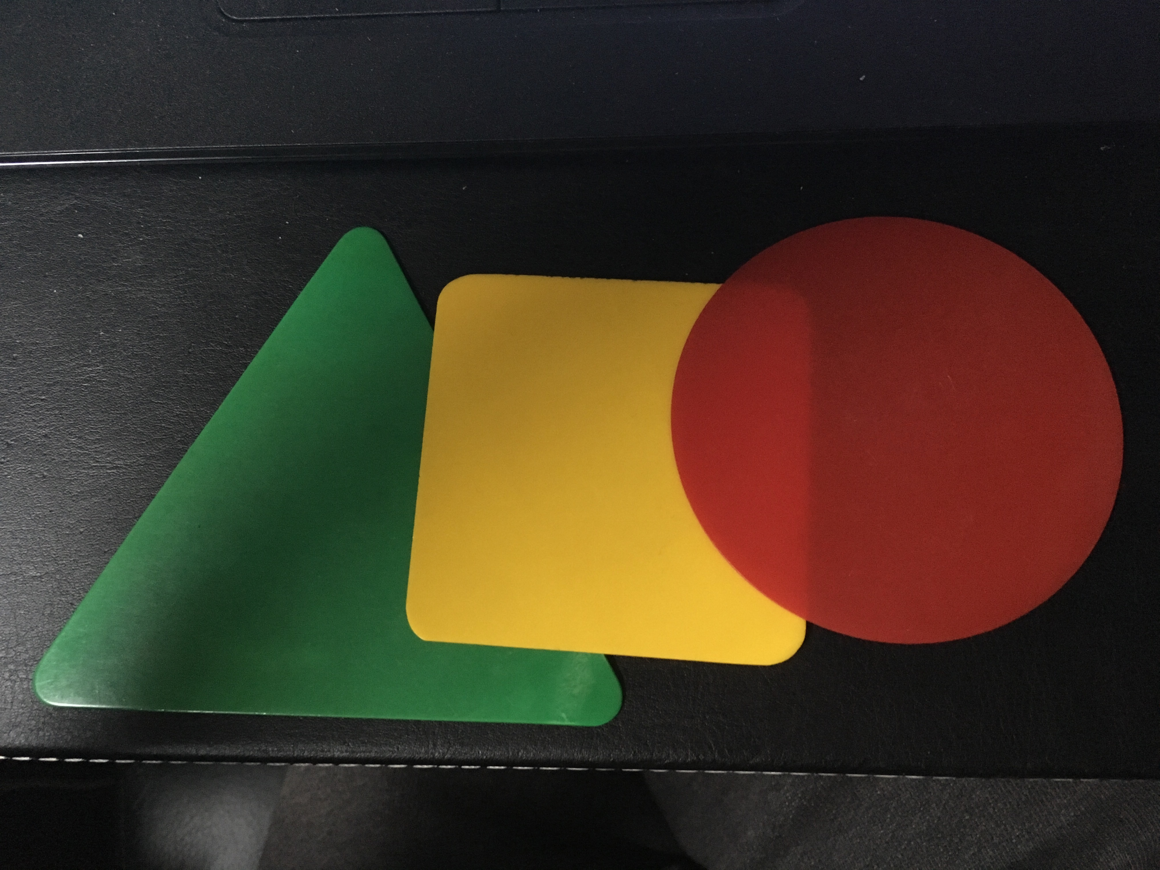 Green, yellow and red card in field hockey